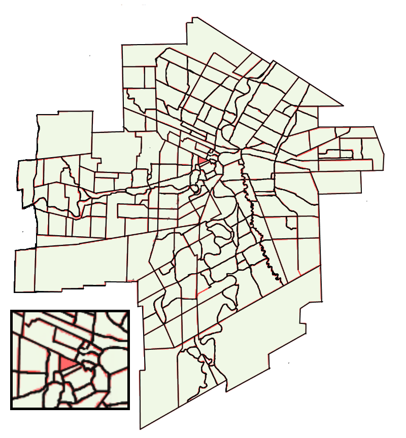 The red area is where Central Park is located within the city of Winnipeg